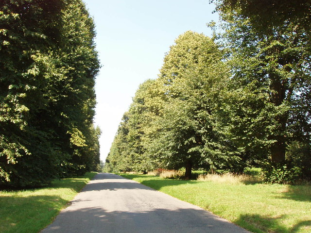 Avenue of lime trees at Turville Heath. Young trees are being planted to restore this avenue. The road across Turville Heath runs through part of the avenue.